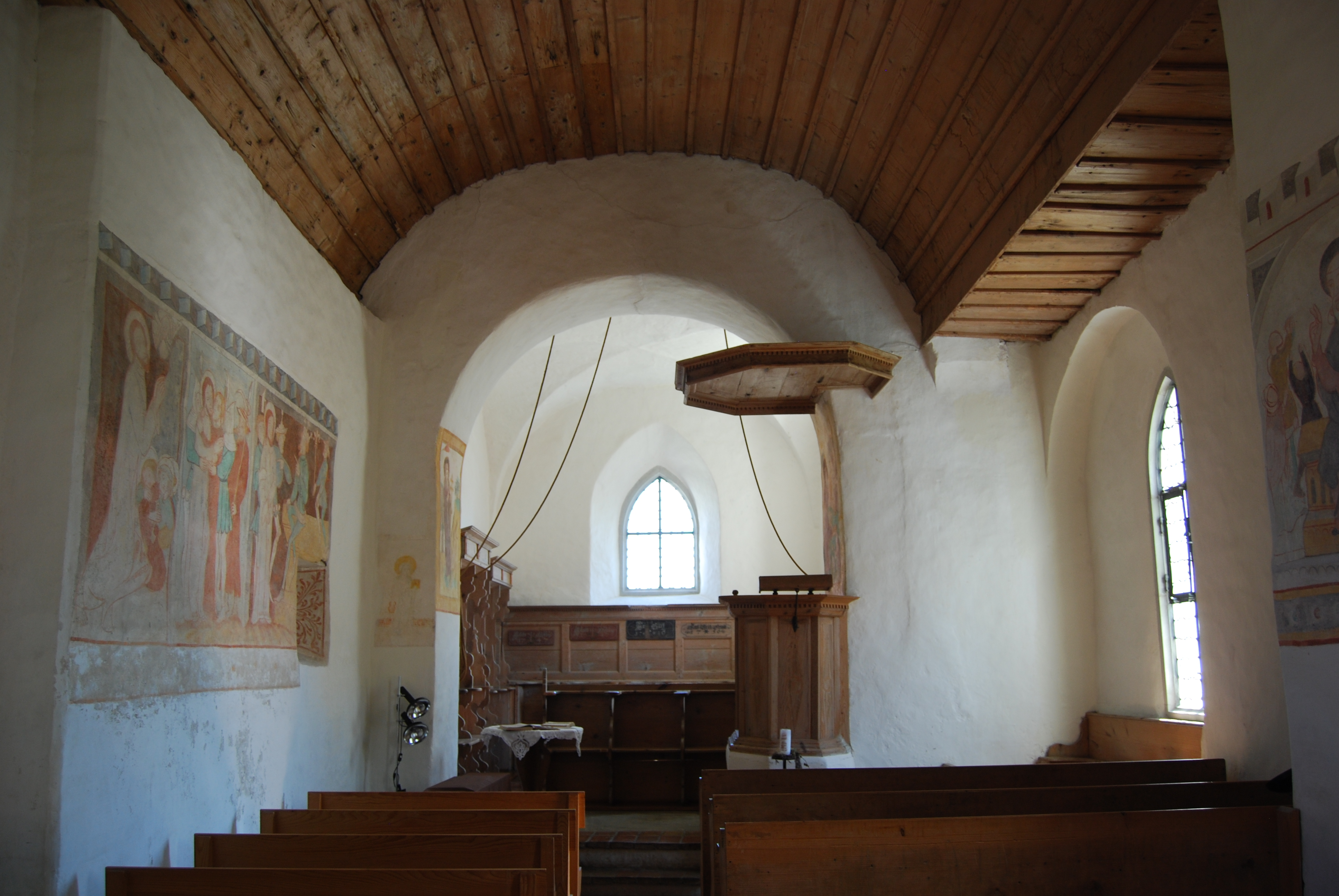 Church of Waltalingen, canton of Zürich, SwitzerlandEsperanto: Preĝejo de Waltalingen, Kantono Zürich, Svislando